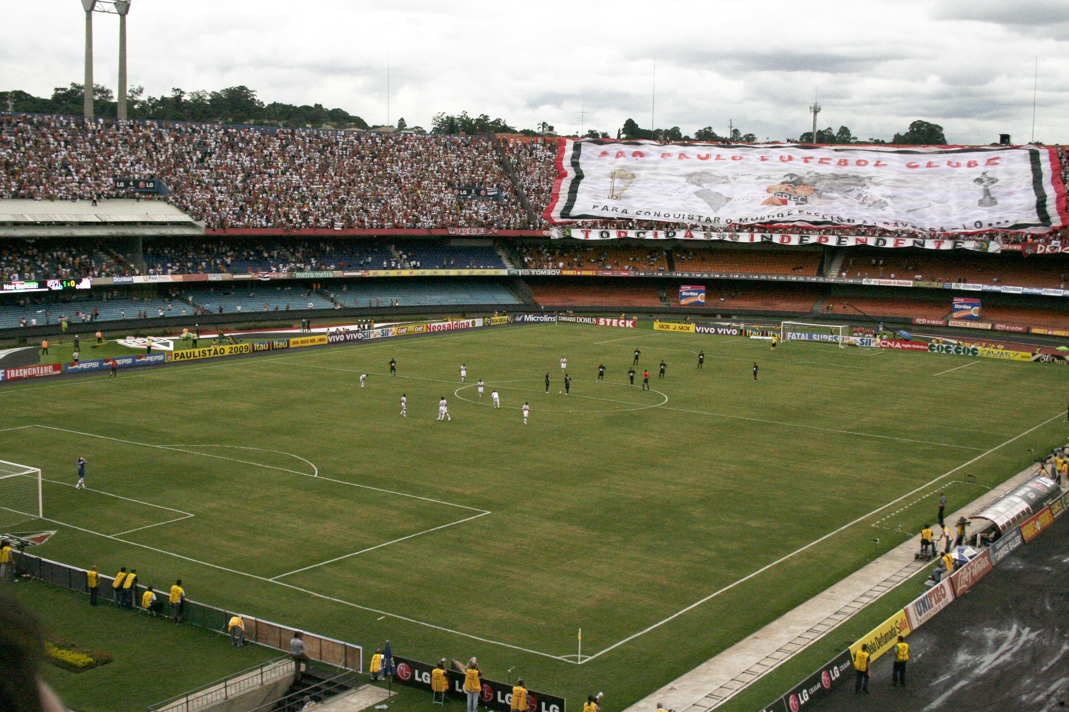 match of Paulista Championship of 2009 between São Paulo and Corinthians in Cícero Pompeu de Toledo stadium, known as Morumbi. One of the most important brazilian derbies. The game ended 1 to 1. View of the São Paulo supporters.